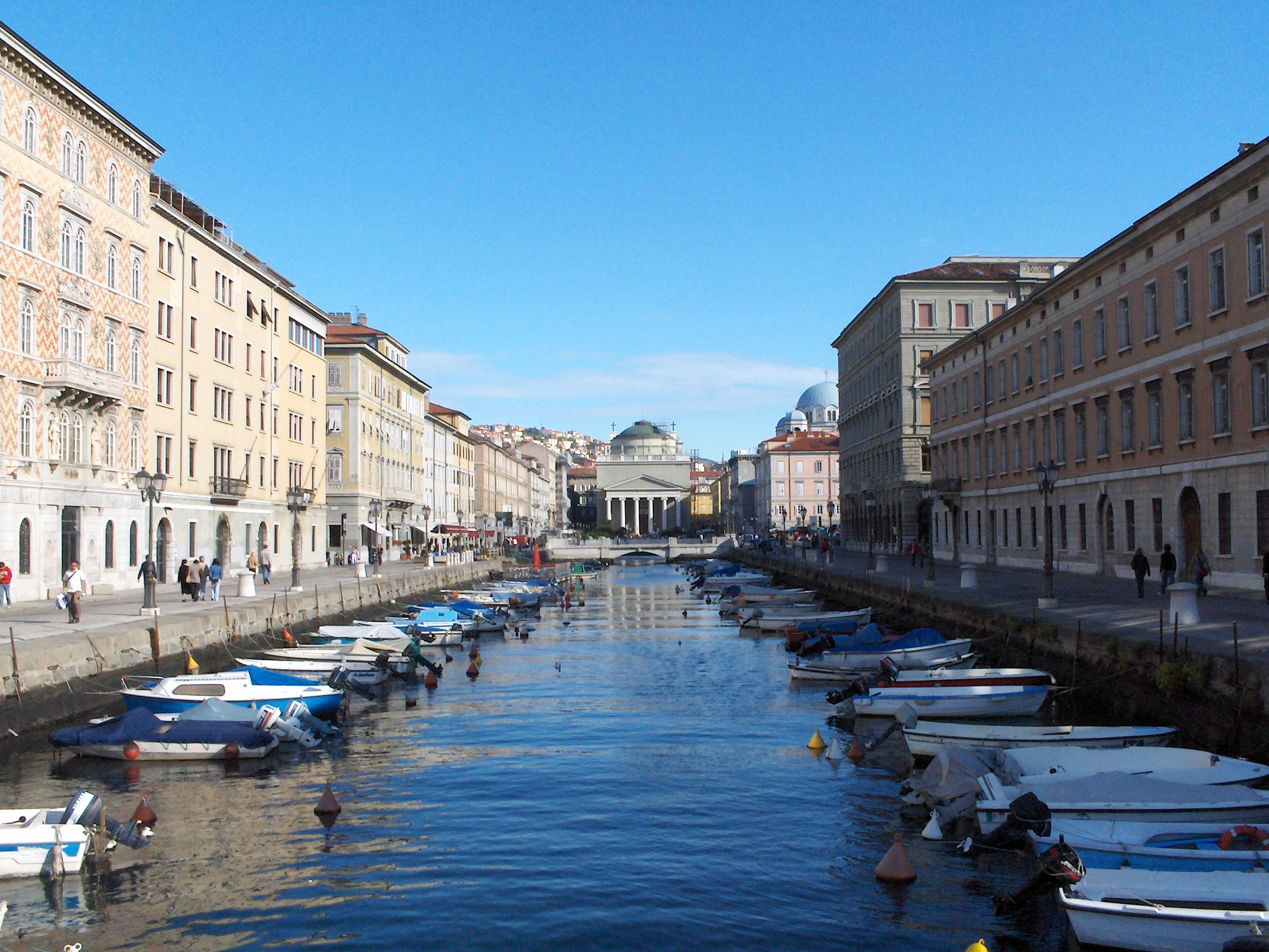 Trieste, Canal Grande